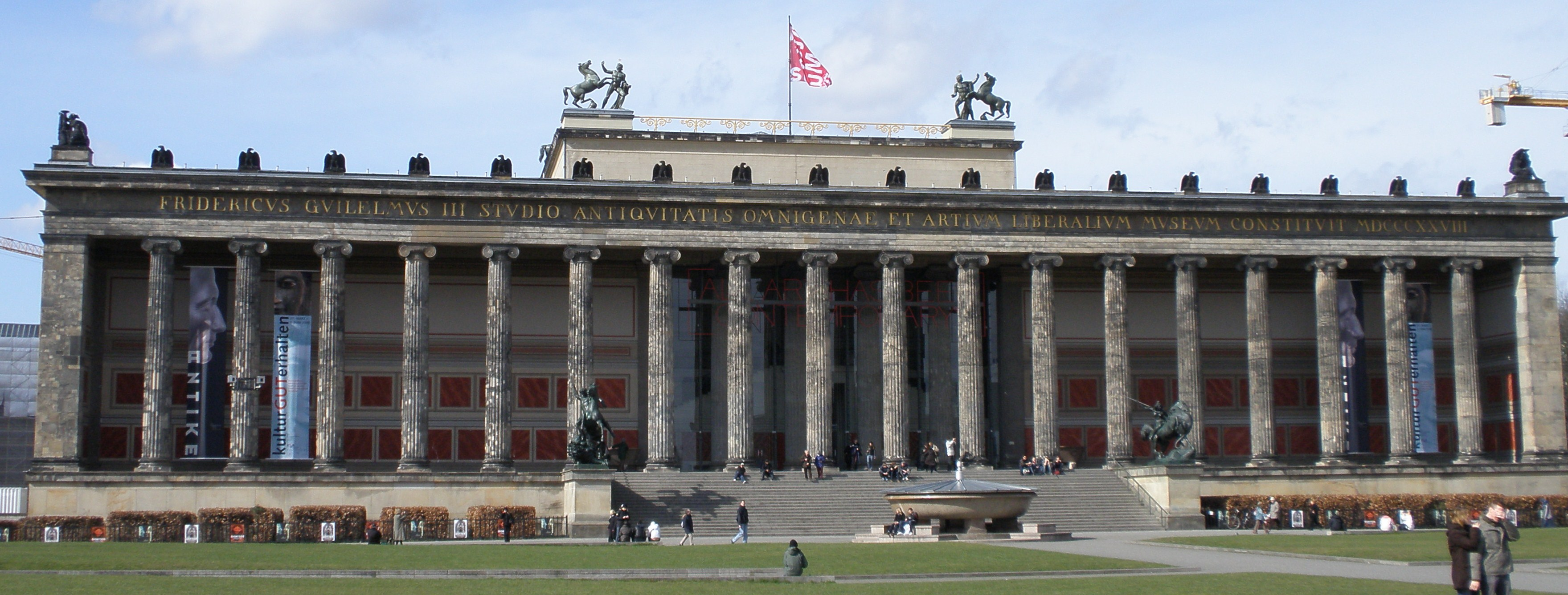 Exterior view of the Altes Museum Berlin.